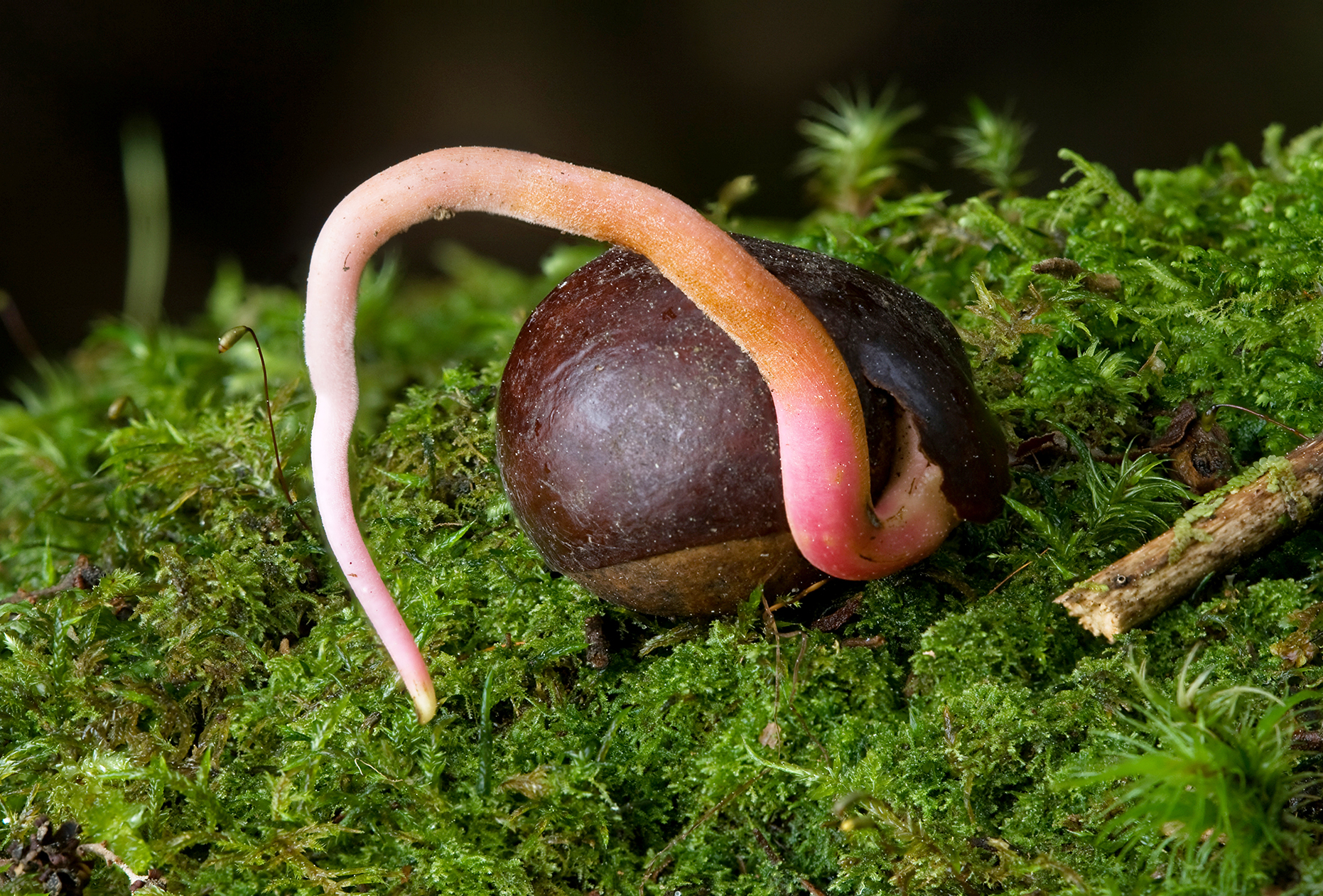 Aesculus hippocastanum seed sprouting